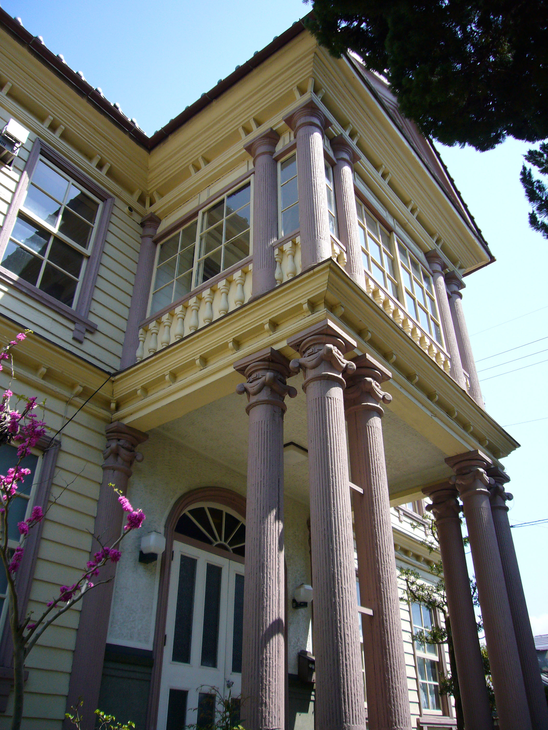 Old Hikami District's Towns-and-villages associations' Higher elementary school in Tamba, Hyogo prefecture, Japan